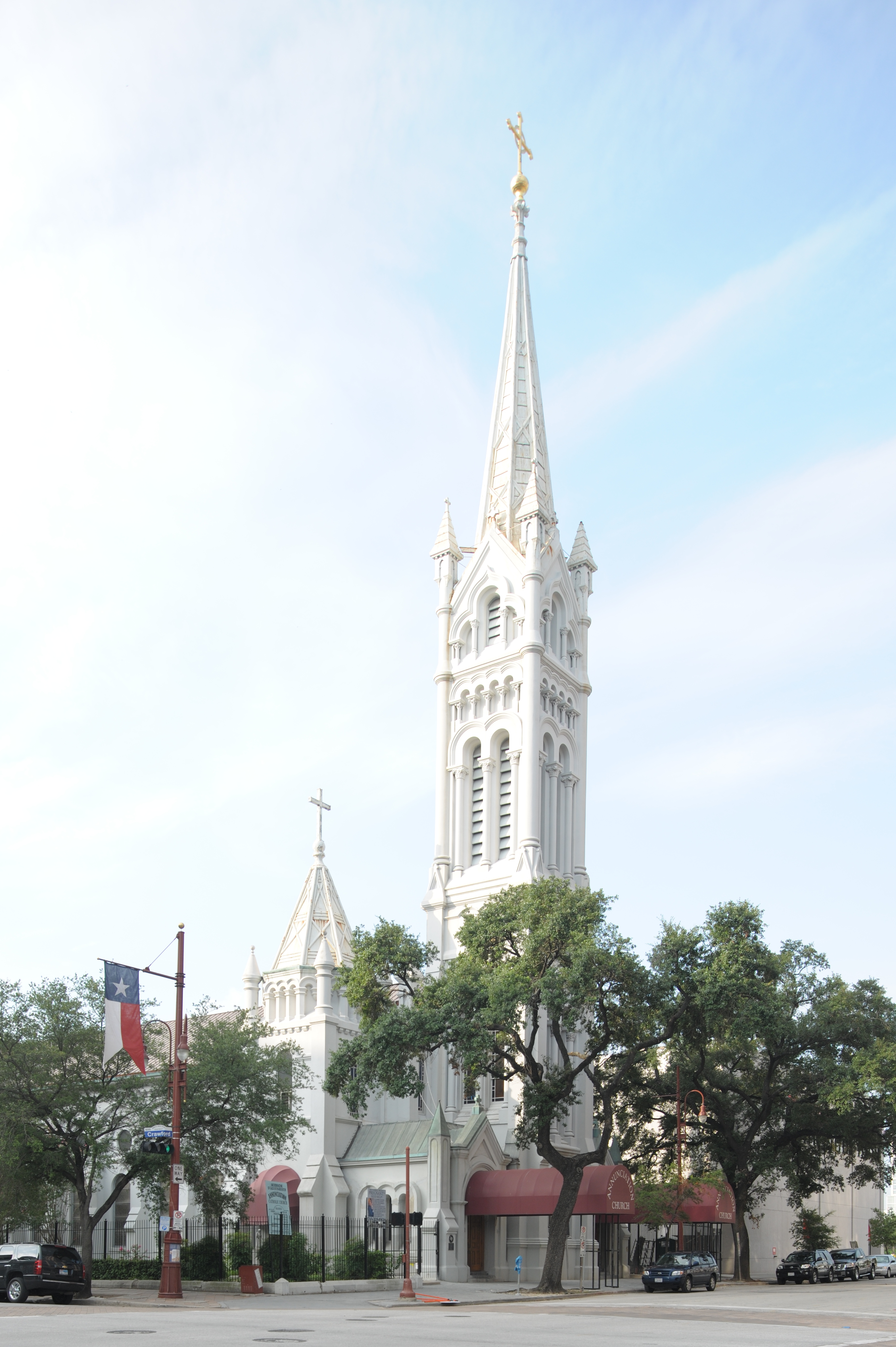 Annunciation (Roman Catholic) Church, at 1618 Texas Avenue, Houston (Texas, USA), is listed on the National Register of Historic Places.